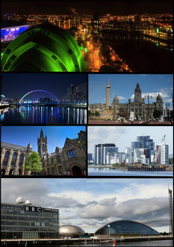 All these files in this montage have previously been uploaded to wikipedia. File:City of Glasgow at night, Scotland.jpg by Goodreg3 File:George Square and the City Chambers - .uk - 727384.jpg by Row17 File:Clyde Arc (Oct. 2014).jpg by Sceptrel File:University of Glasgow Quadrangle.jpg by Mdbeckwith File:Glasgow Harbour in 2007.jpg by Thomas Nugent File:Glasgow Science Center.JPG by J. Miers